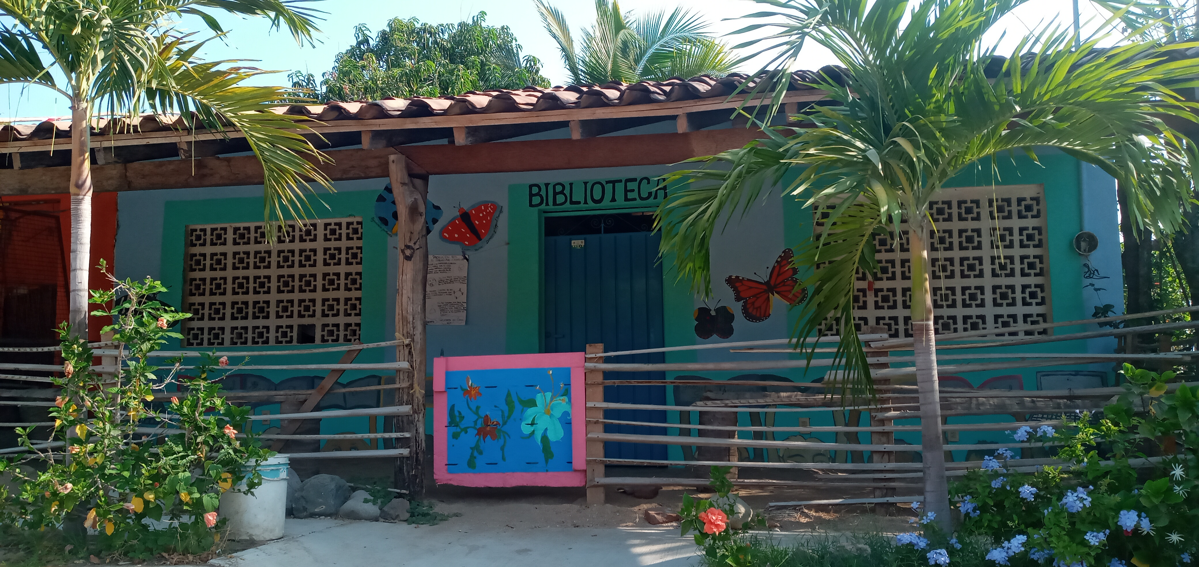 Children's library de Barra de Potosi, Guerrero, Mexico